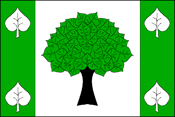 Municipal flag of Lípa village, Havlíčkův Brod District, Czech Republic.